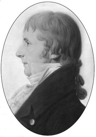 Engraving of James Jones by Charles Fevret de Saint-Memin